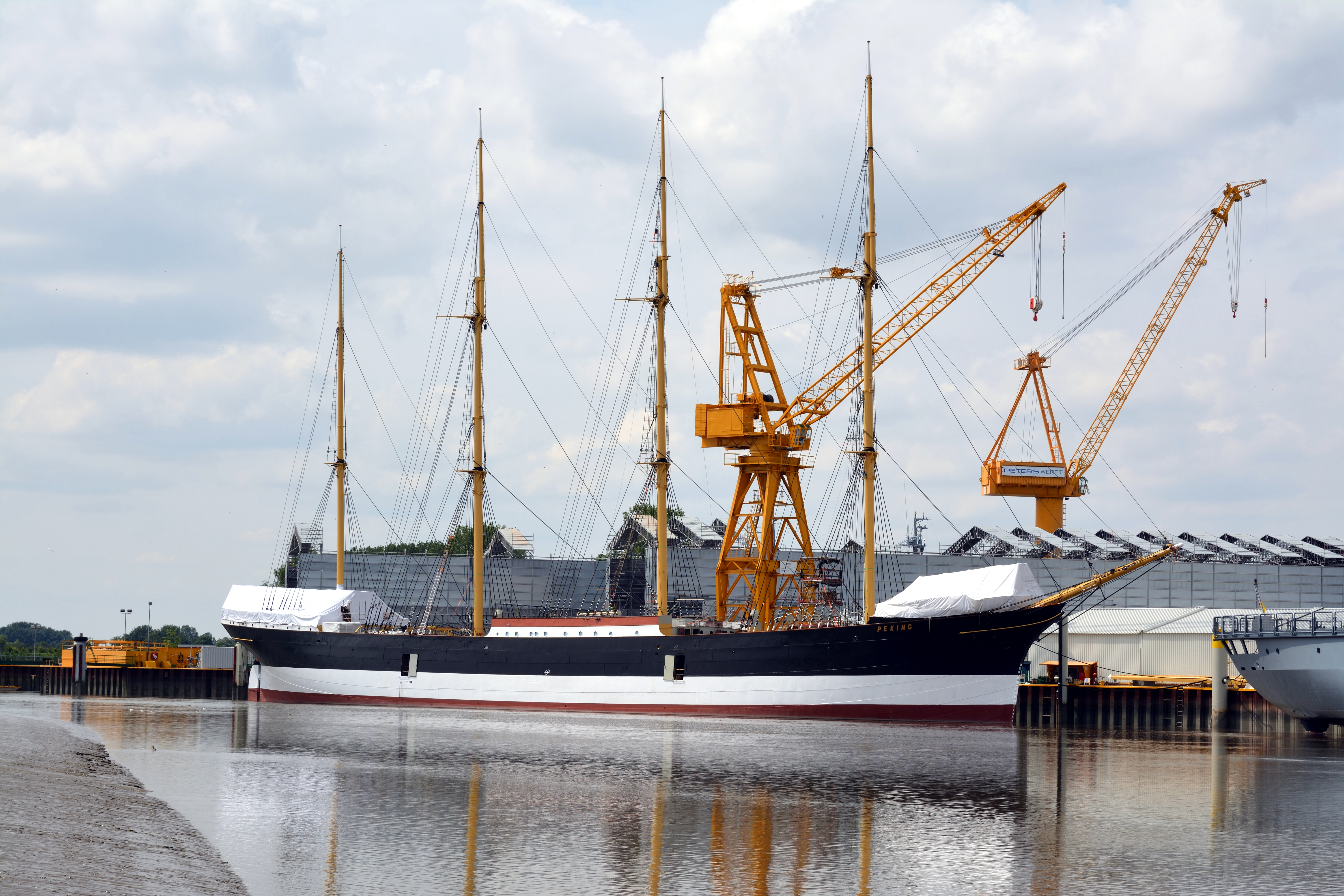 The reconstruction of the Peking makes progress on the peters shipyard in Wewelsfleth